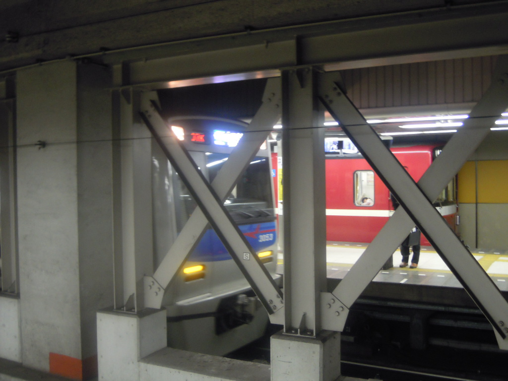 Keisei Oshiage Line and Toei Asakusa Line Oshiage Station platform No.3 & No.4